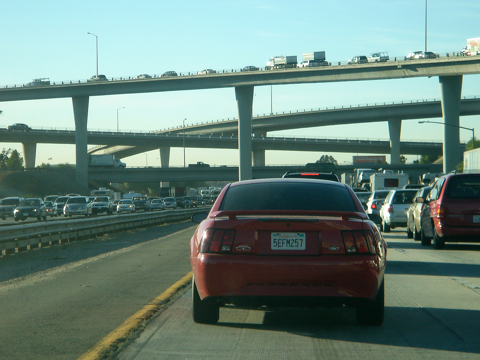 With more than a little public transportation... It wasn't fun to be stuck in traffic more than 50 km from LA.